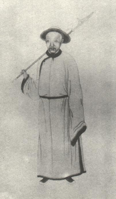 HONG Liangji, politician and scholar of the Qing Dynasty.